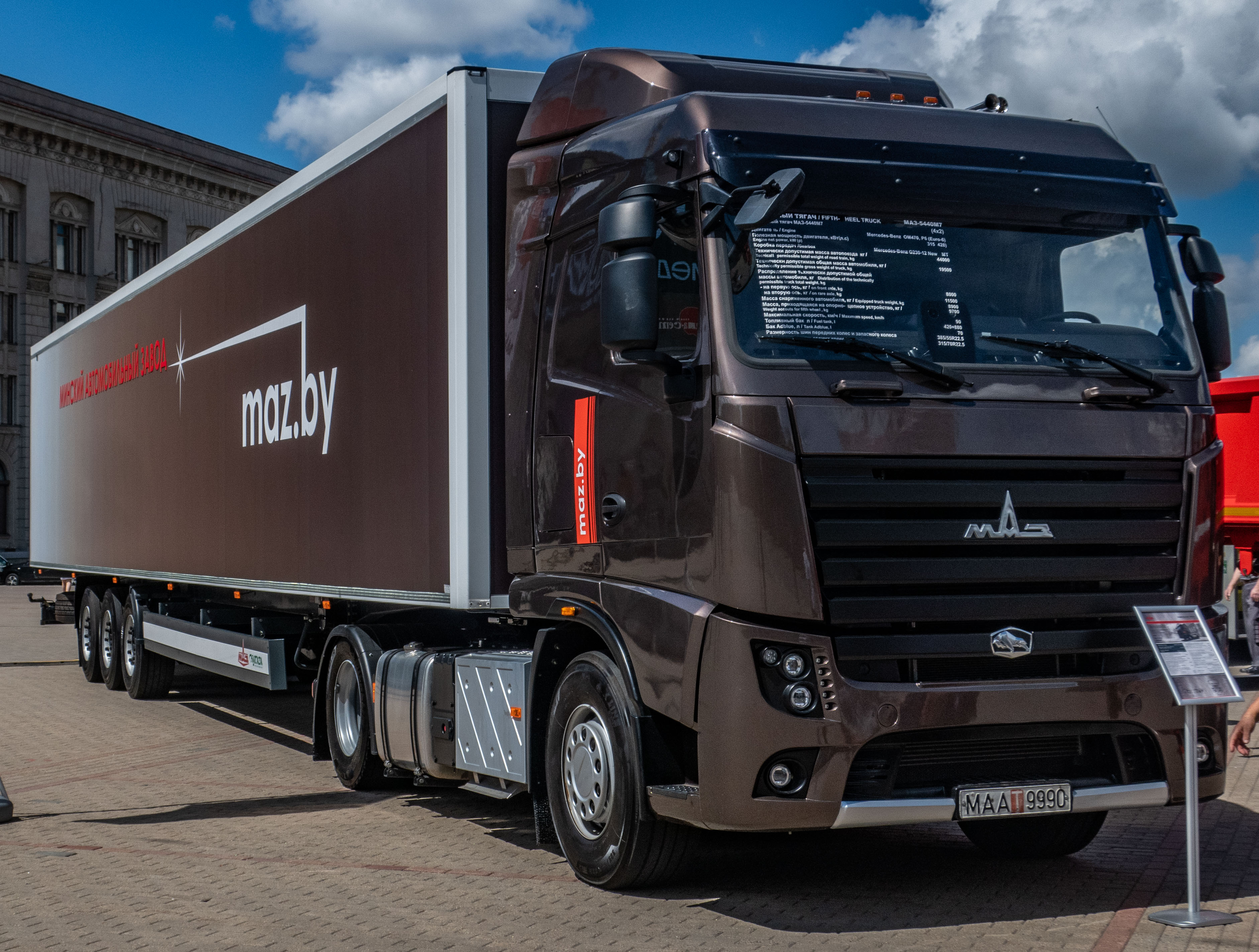 MAZ-5440M7. Minsk, Belarus